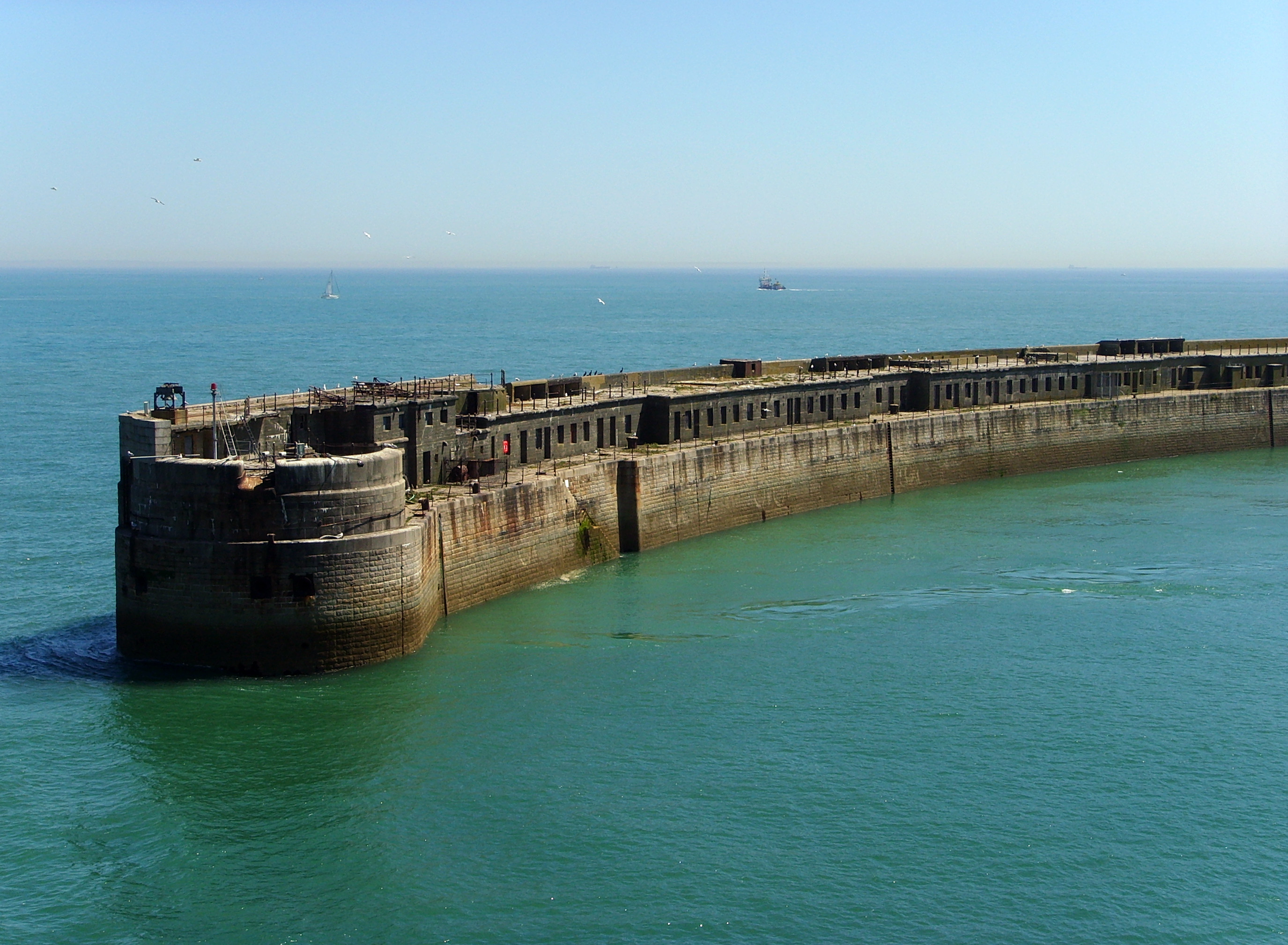 The port of Dover from a ferry